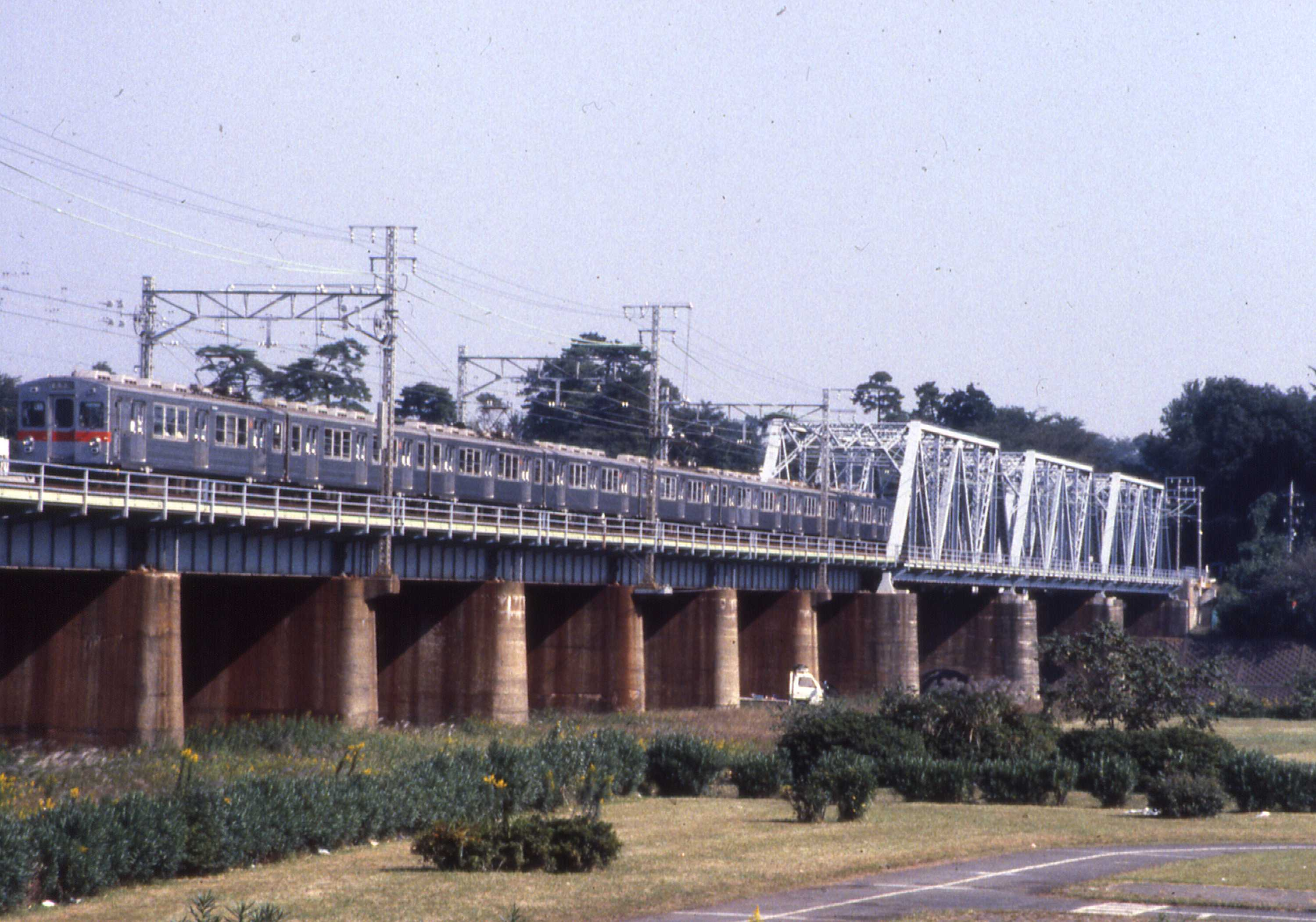 Tokyu 7000 series running over a bridge on Toyoko line over Tamagawa river